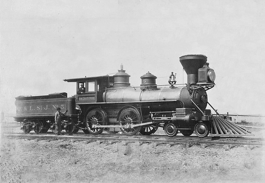 Quebec and Lake Saint-John Railway : Quebec and Lake Saint-John Railroad Locomotive Number 5, Named for the Honorable James Gibb Ross